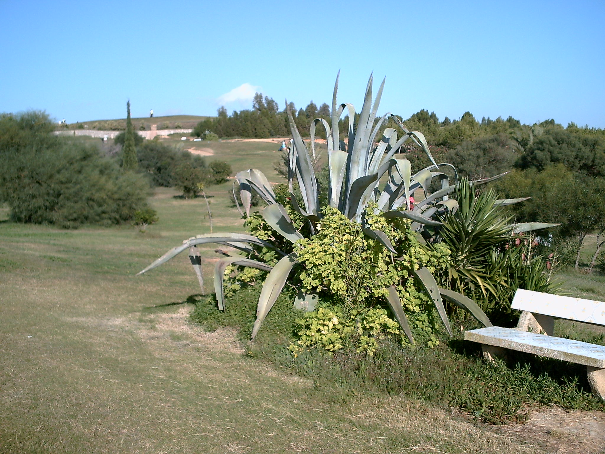 Golf course Yasmin in Hammamet, Tunisia